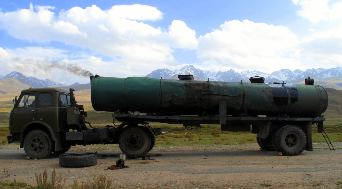 Sassamir Valley 15 tonnes needs to get to Talas to fix roads. While waiting for part (already second day) the guy is warming the truck with kerosine so that's the smoke coming out form in front. Nice place to break down. He was sad, lonely, we chatted with him for a while. He told us about the tar trucking business in Kyrgystan.